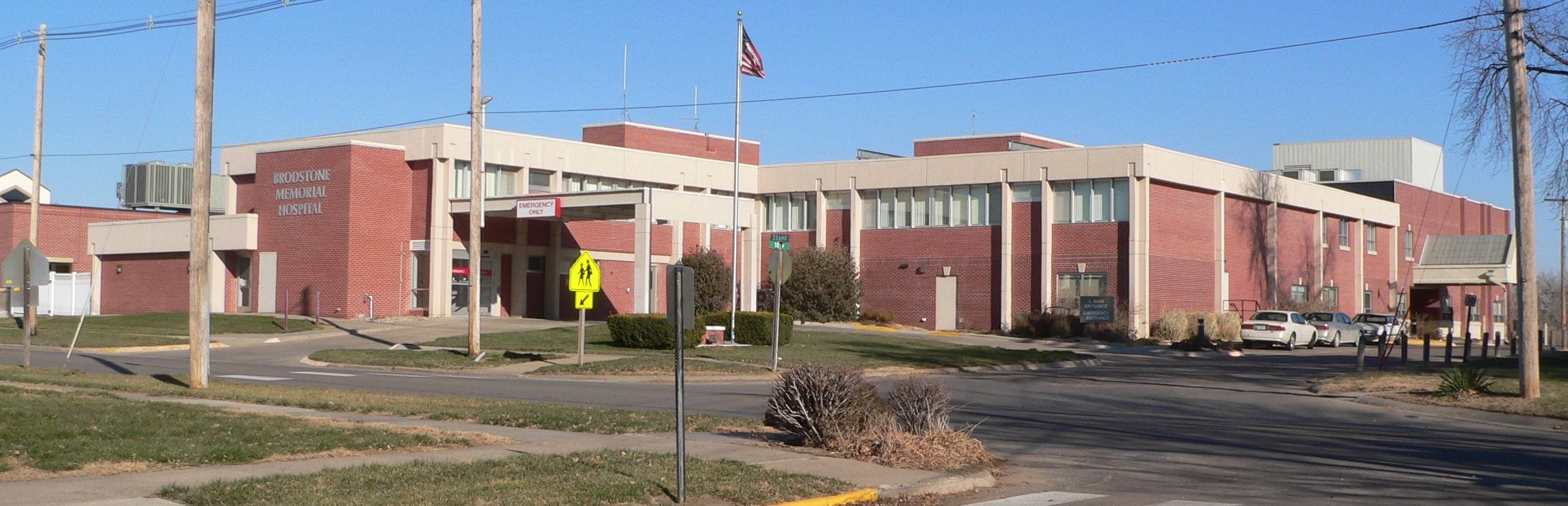 Brodstone Memorial Hospital in Superior, Nebraska; seen from the southwest.